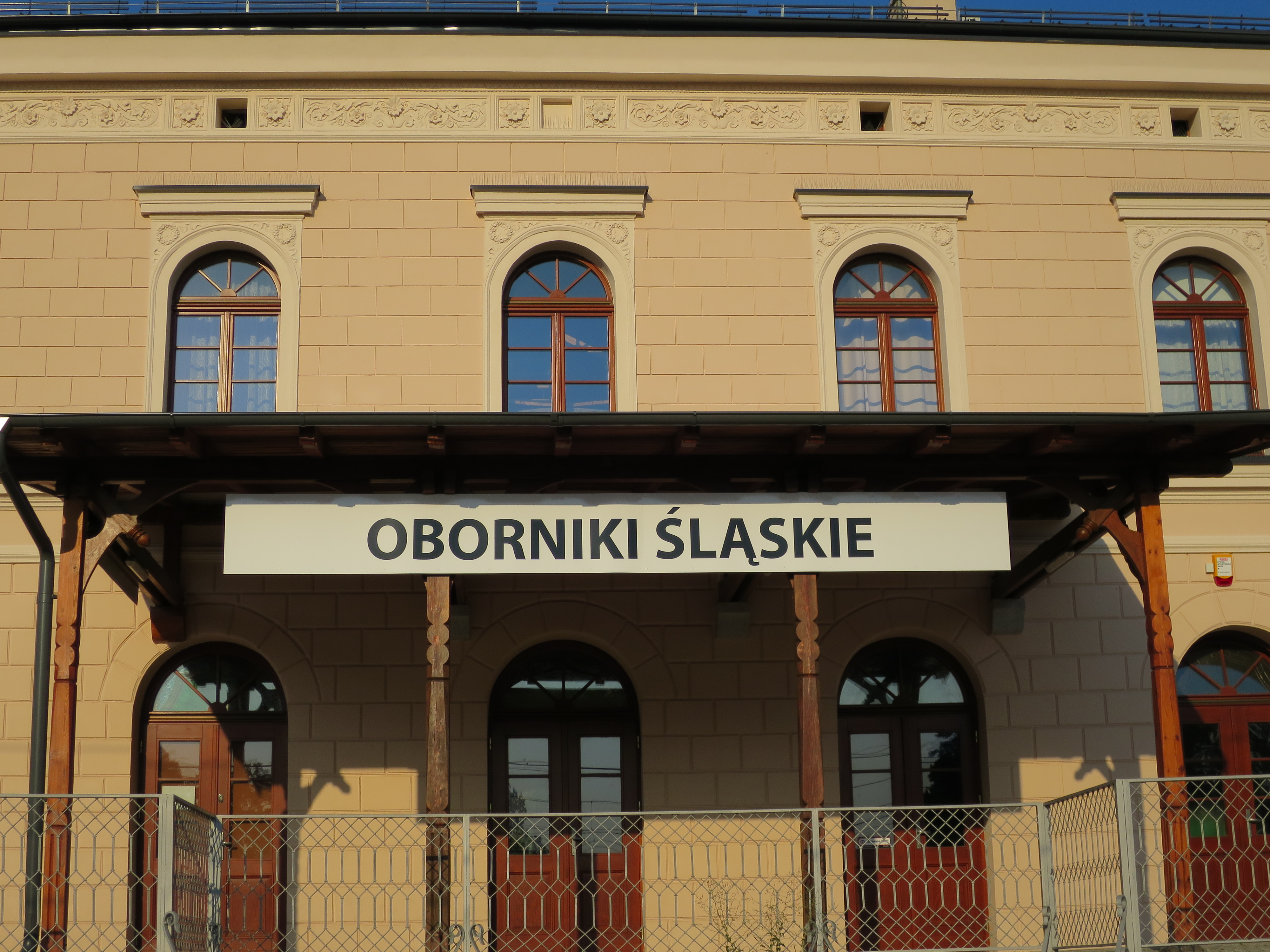 Dworzec Oborniki Śląskie This photo was taken during Railway Wikiexpedition 2015 set up by Wikimedia Polska Association in cooperation with Fundacja Grupy PKP. You can see all photographs in category Wikiekspedycja kolejowa 2015.